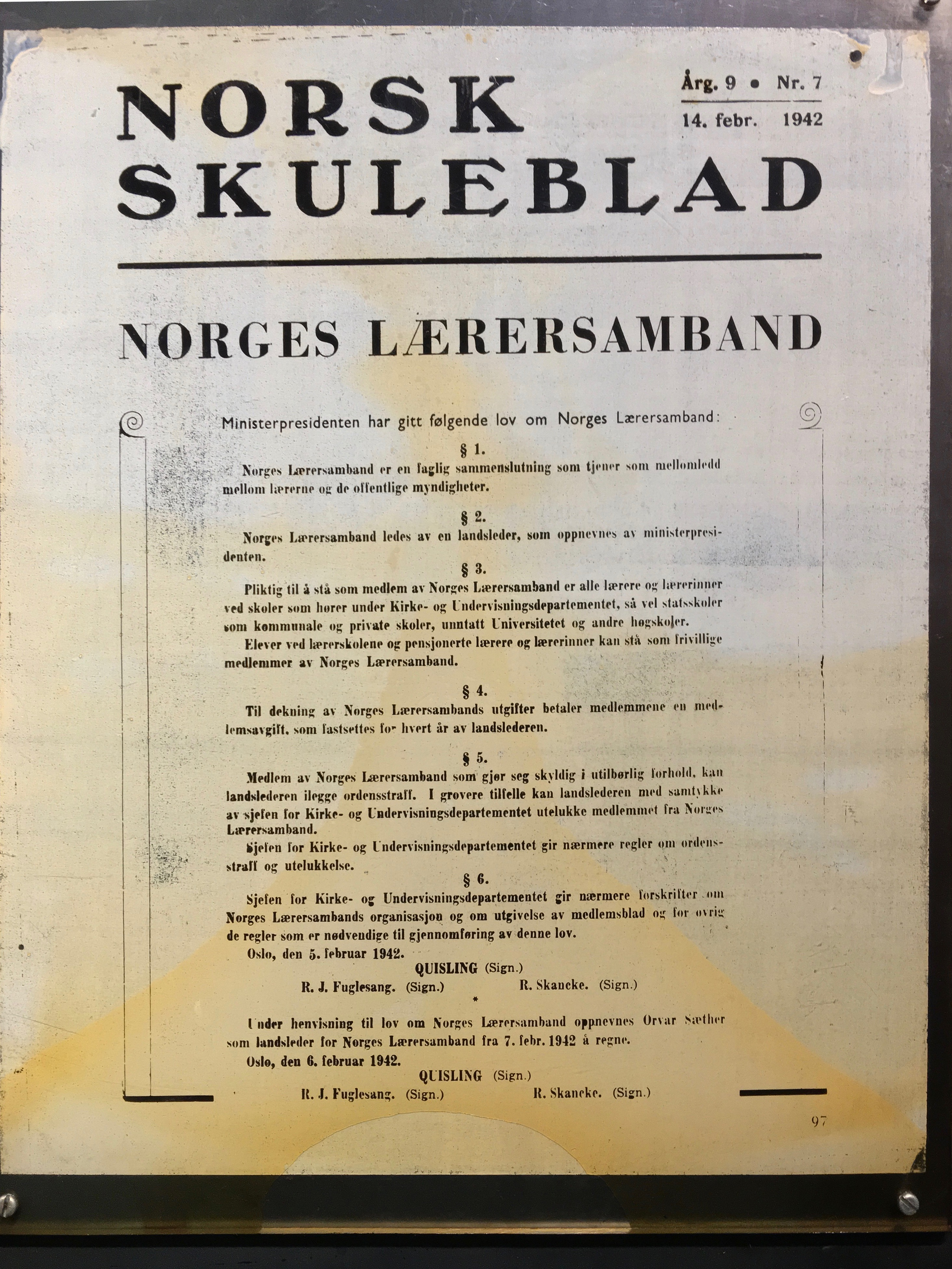 Norsk skuleblad 14. februar 1942: Lov om Norges Lærersamband signert av ministerpresident Quisling, R. J. Fuglesang og R. Sckanke 6. februar 1942. Orvar Sæther oppnevnes som landsleder fra 7. februar. Photo taken on 2017-11-30 at the exhibition of Norway's WW2 Resistance Museum (Hjemmefrontmuseet) at Akershus fortress in Oslo, Norway.